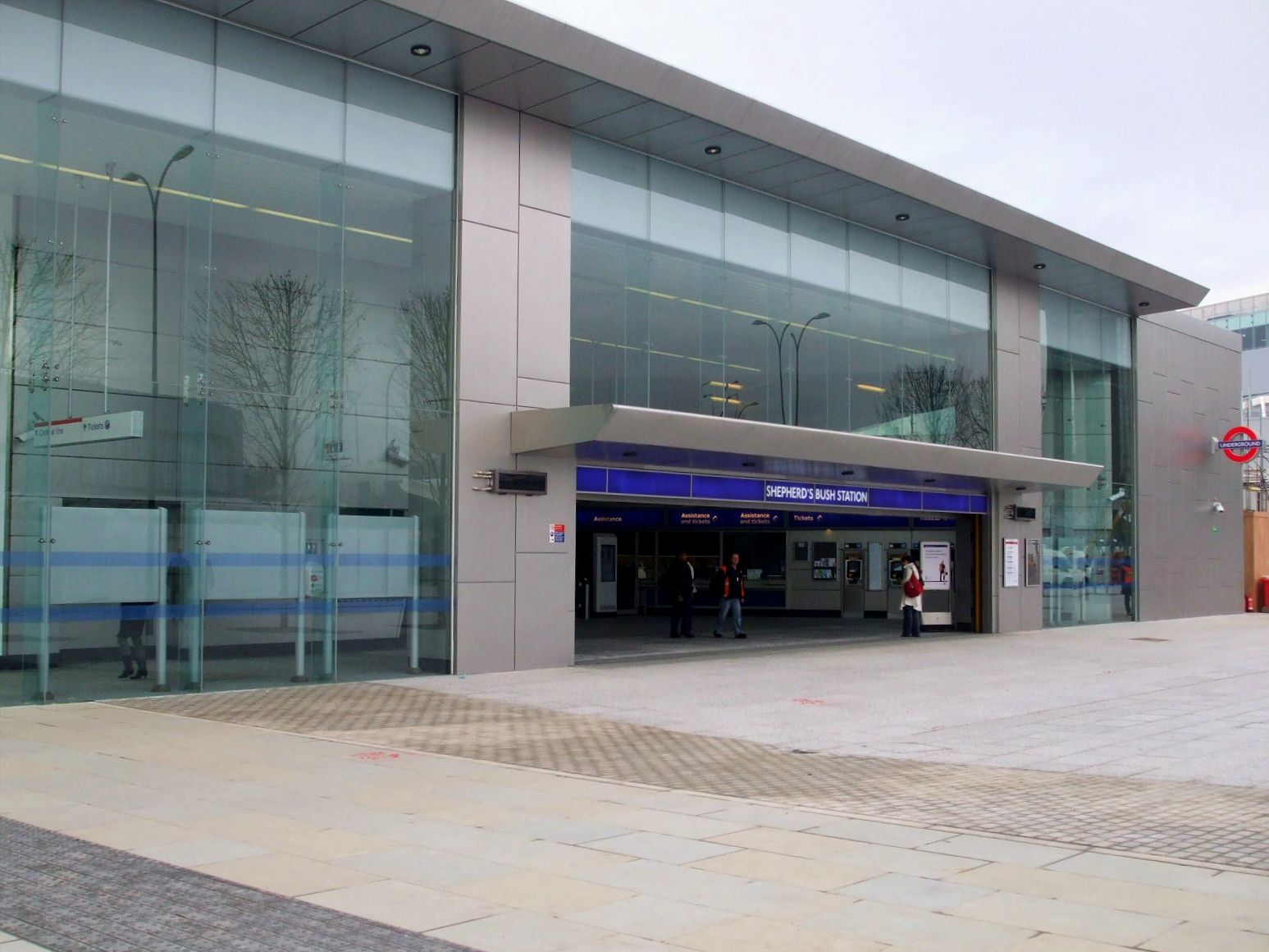 Shepherd's Bush tube station (Central line) eastern entrance, opposite its namesake Overground station. Photo taken the day after re-opening.